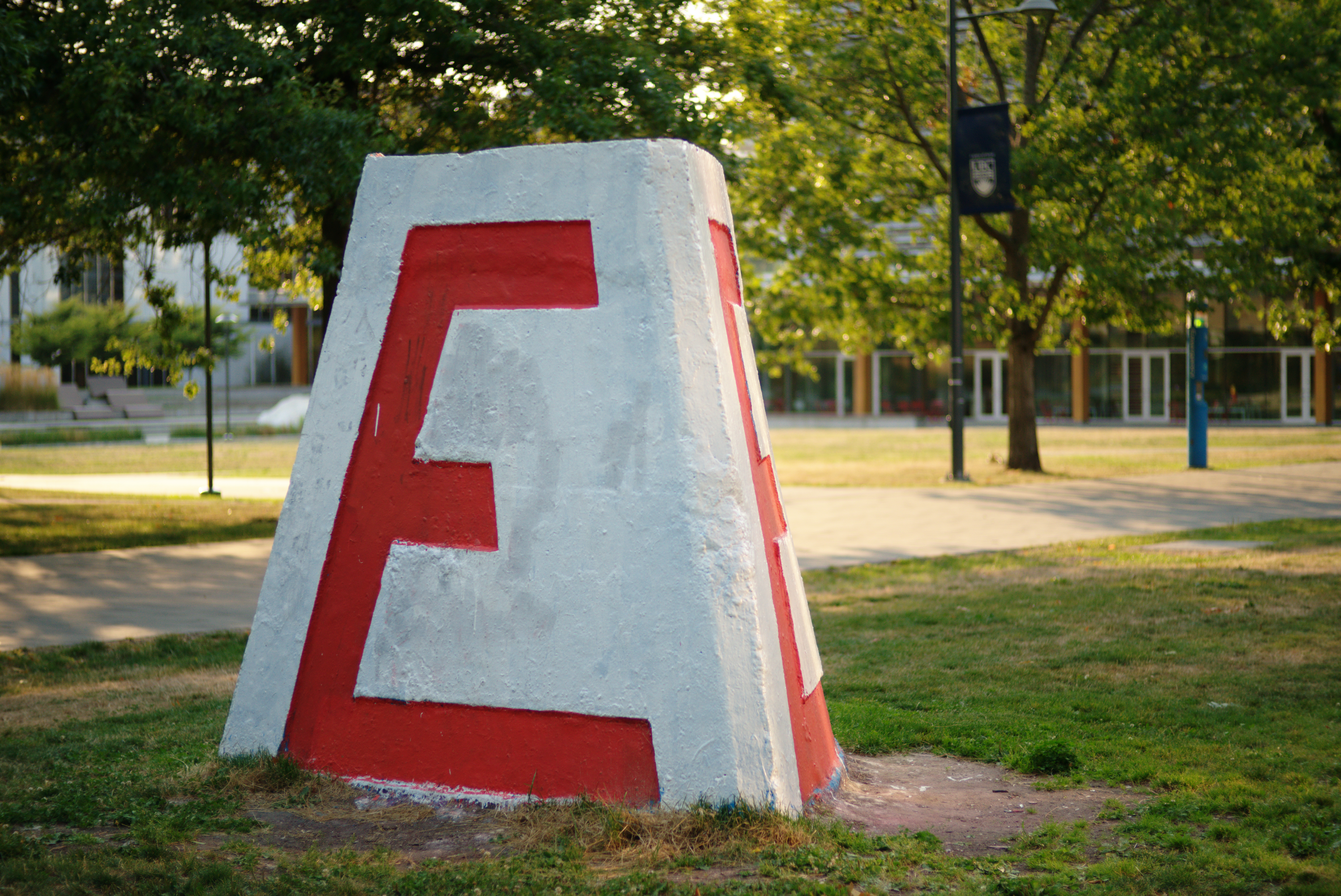 The cairn of the Faculty of Engineering at the University of British Columbia in Vancouver, BC in Canada. This was one of the rare days when the cairn was not painted by students from other faculties.